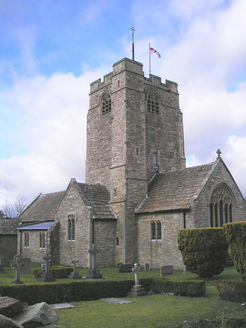 St Bartholomew's parish church, Barbon, Cumbria, seen from the southeast